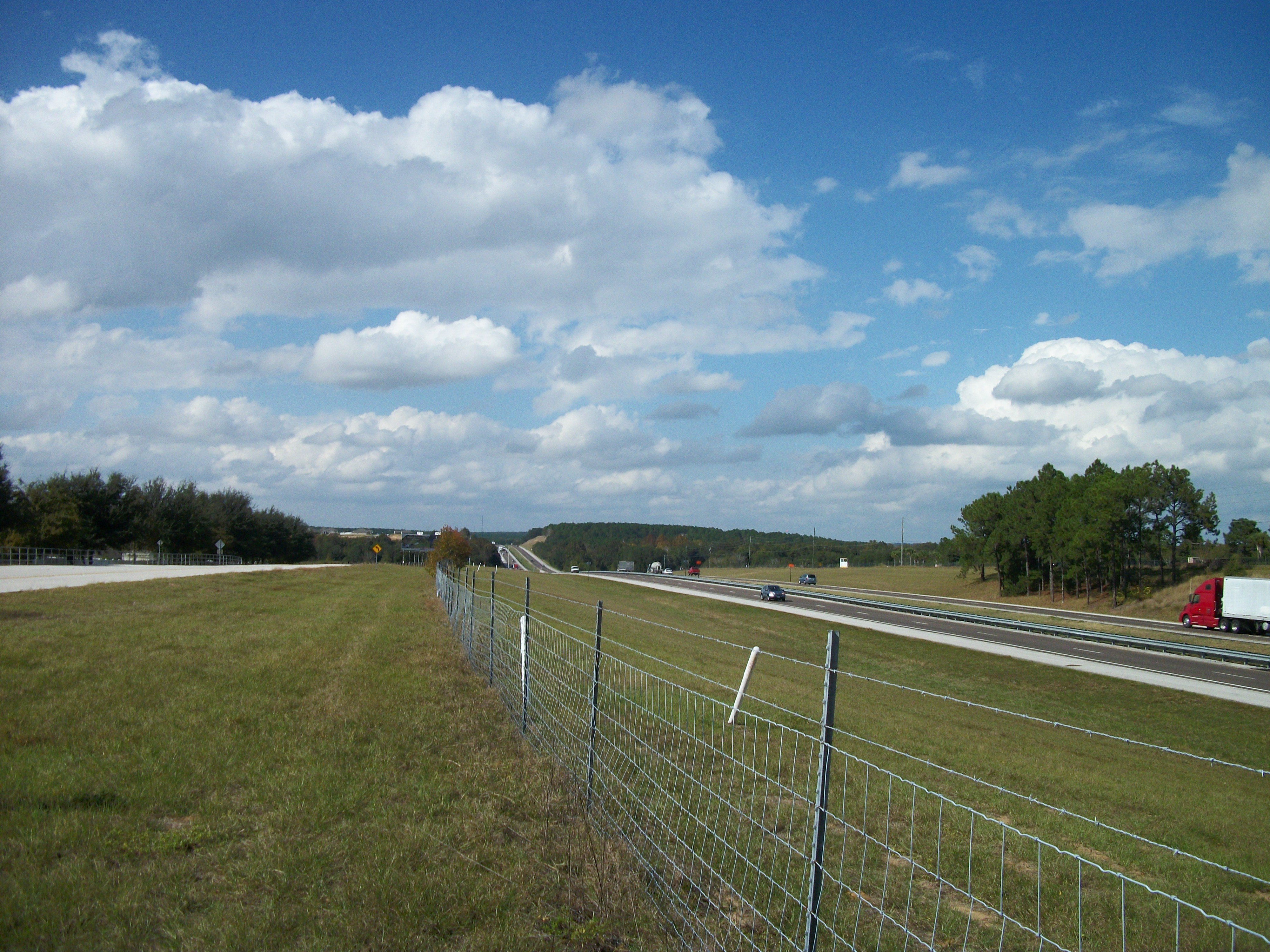 Florida's Turnpike as seen from what passes for the shoulder of Old Lake County Road 50 near Clermont, Florida.